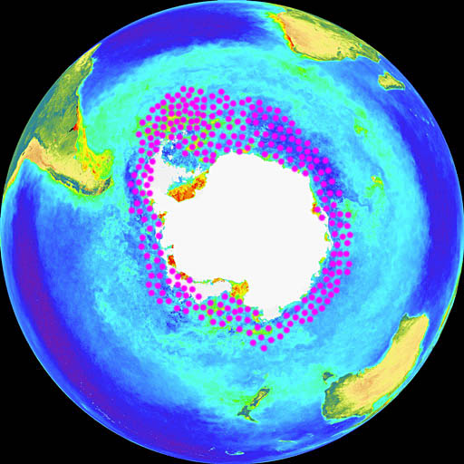 distribution of krill on NASA image composed by Uwe Kils.